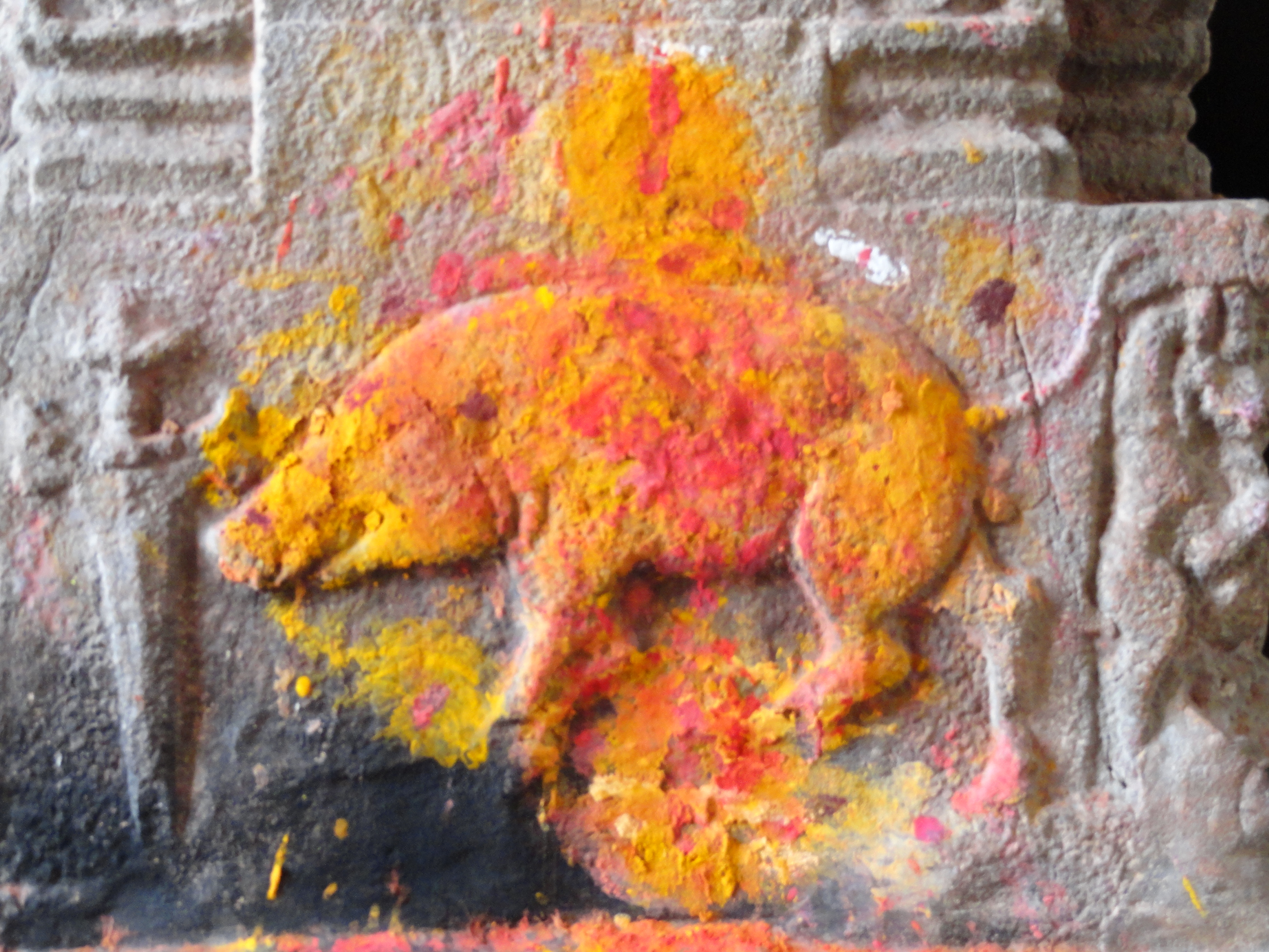 this is the Rajamudra of vijayanagara kingdom. at alipiri, near, Tirupati